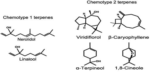 The major terpenes found in Melaleuca quinquenervia. The acyclic compounds on the left are characteristic of chemotype 1, whilst the cyclic compounds on the right are characteristic of chemotype 2.